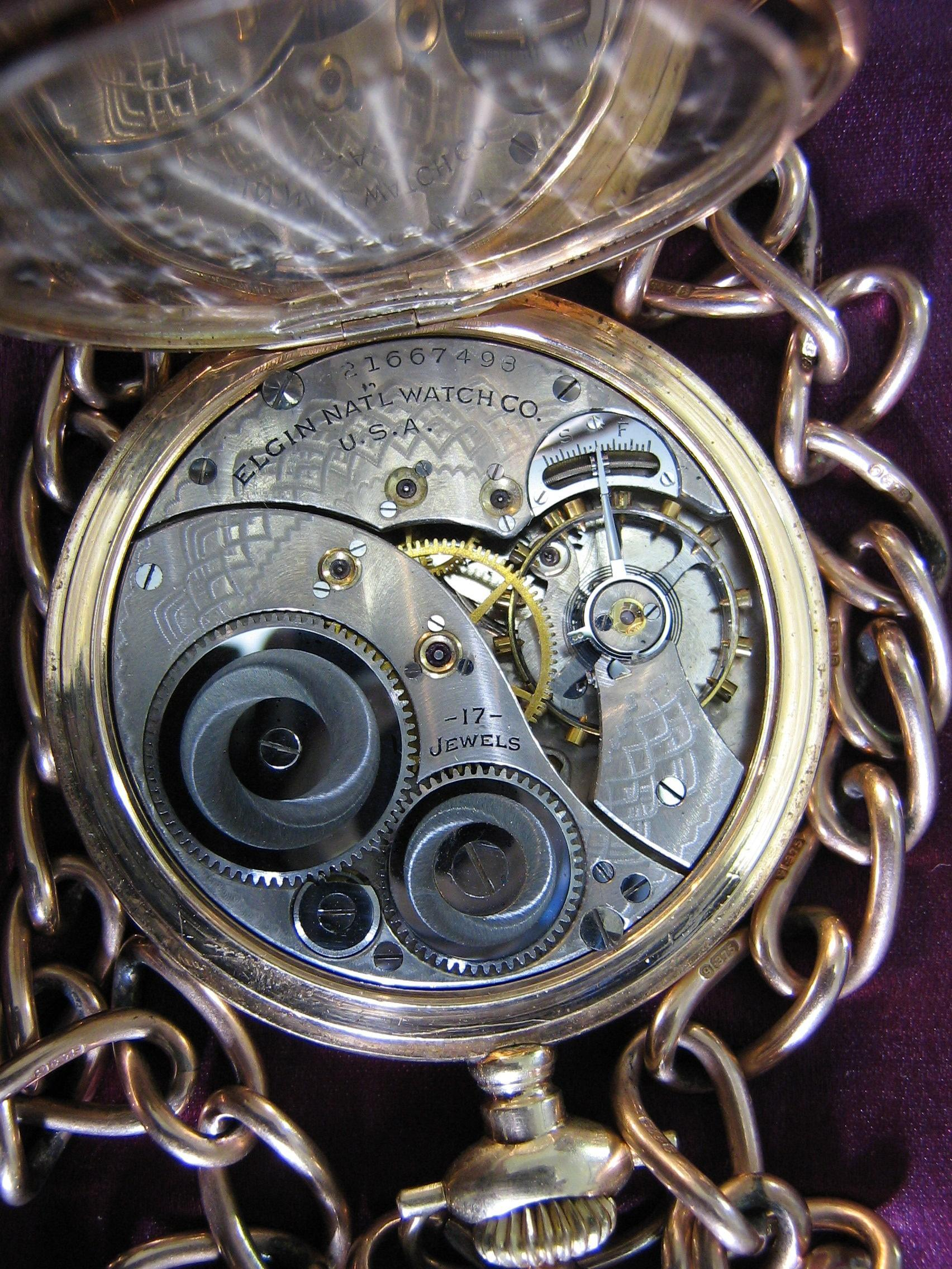 A gold pocket watch made by the Elgin National Watch Company of Elgin, Illinois, cir.1919, with the back open showing the movement of the watch. There is an inscription on the inside back cover "Presented by Esquesing Township and Citizens of Glen Williams to Private Wilson Heaton - 92 - Battalion - 1919" Private Wilson Heaton was born in Southowram, Halifax, UK but moved to Canada, living in Glen Williams, Esquesing Township, Haton County, Ontario. He enlisted with the 92nd Battalion (48th Highlanders), Canadian Expeditionary Force, and fought in the trenches in World War I in Europe. He returned to work as a stone cutter in the quarries around Glen Williams after the war ended.